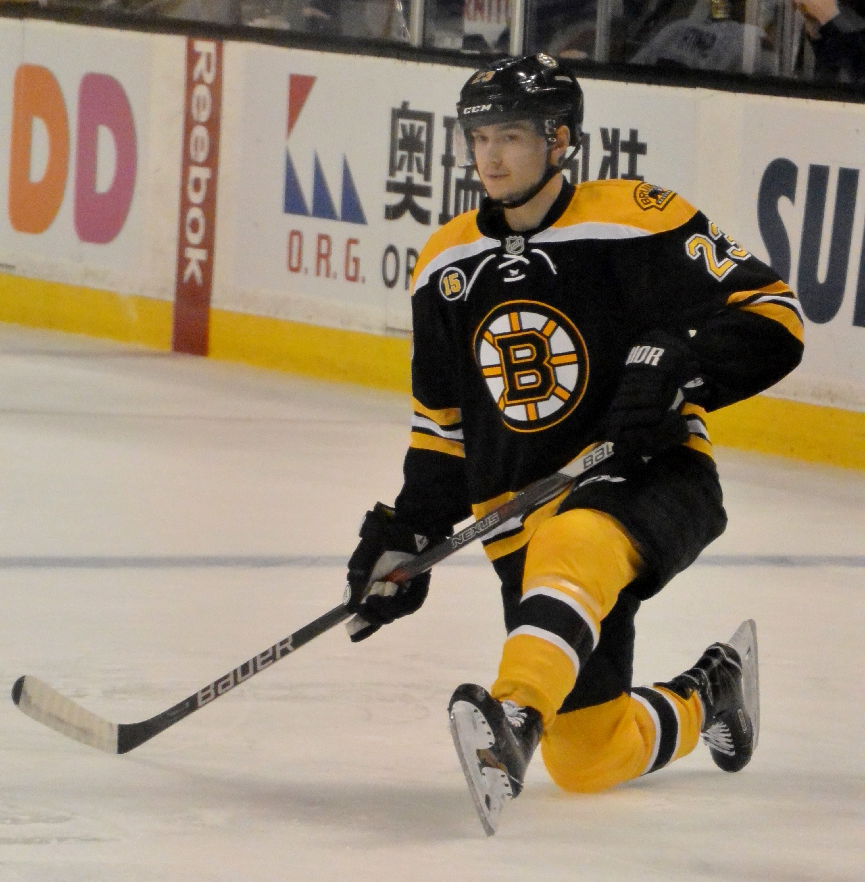 Jacob Forsbacka Karlsson at warmups before game 6 of the Bruins Senators playoff series